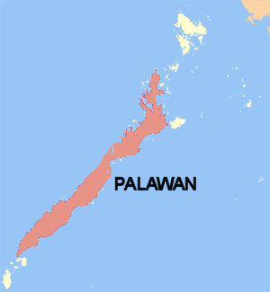 Palawan Island locator map Palawan Island in red Palawan Province in red and white Mindoro Island in beige